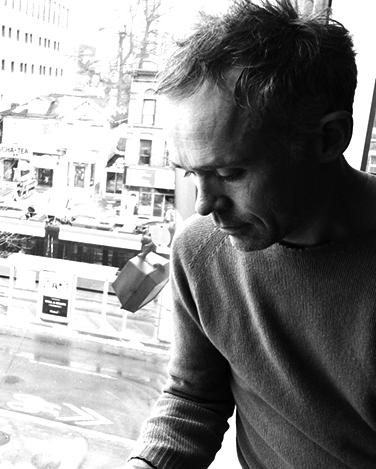 Portrait of filmmaker Ben Rivers by Oona Mosna, Images Festival 2018